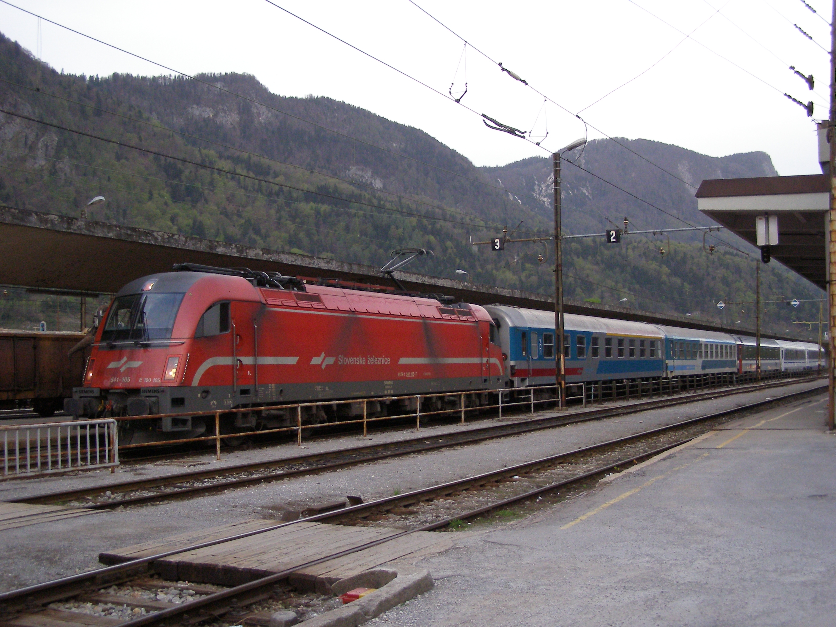 SŽ Siemens ES64U4 Taurus 541-105 locomotive with D415 Alpine Pearls train to Belgrade at Jesenice station